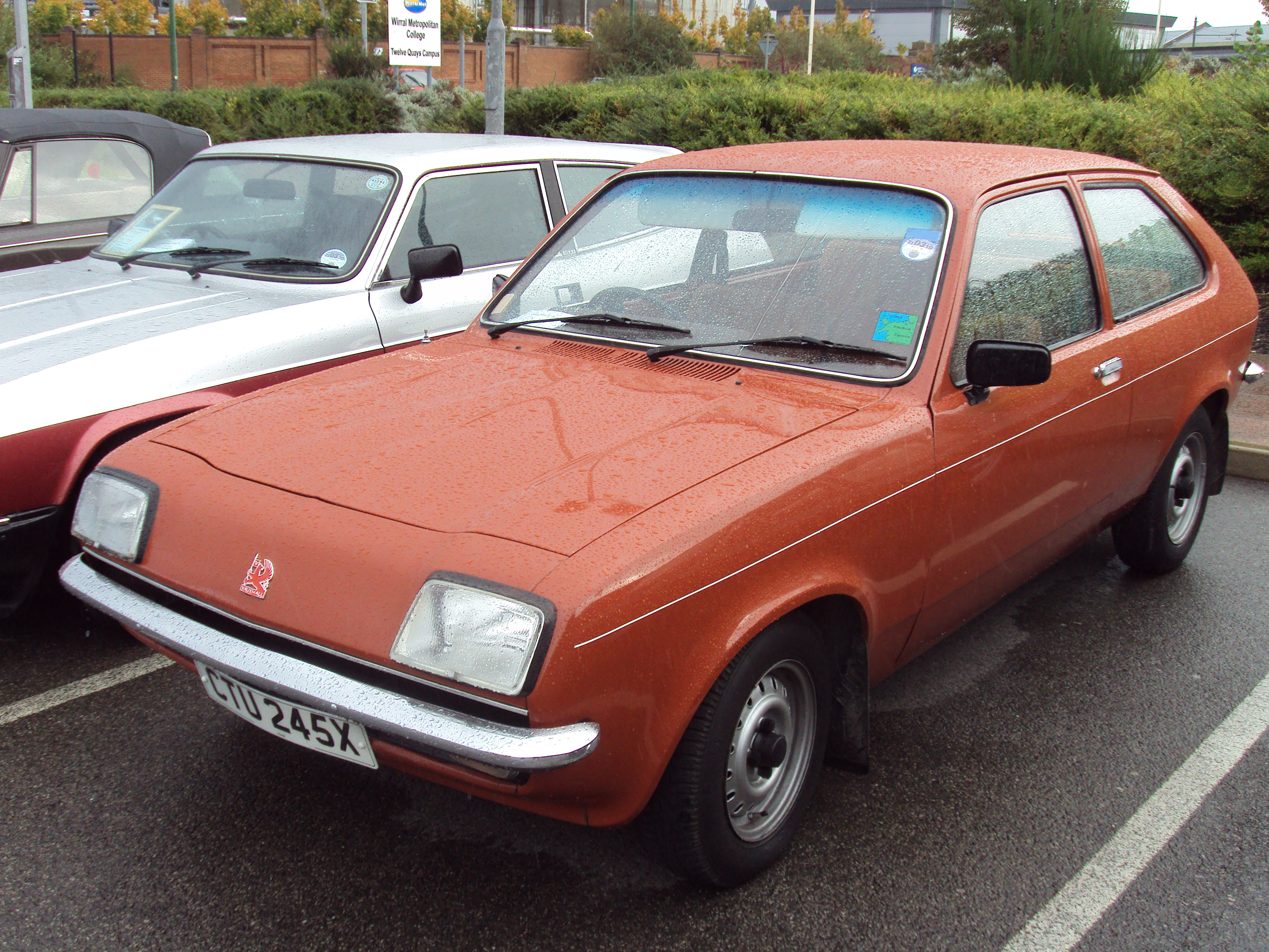 Vintage car at the Wirral Bus & Tram Show, Birkenhead, Merseyside, England.